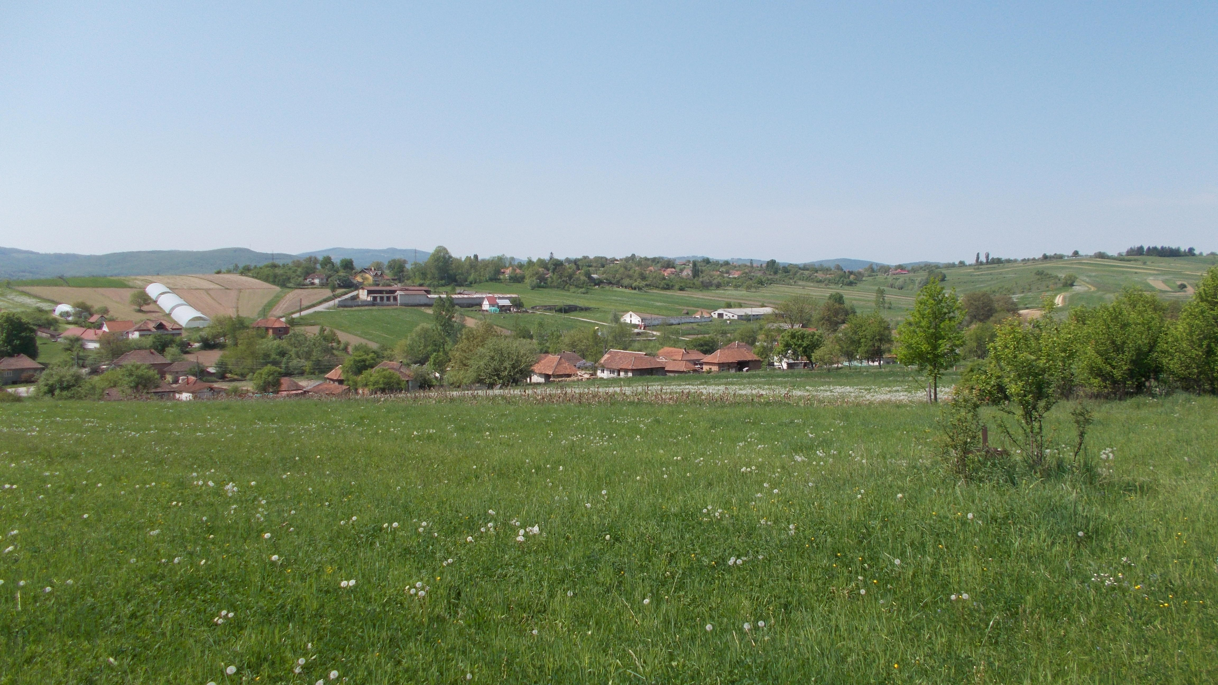 Beznea, Bihor County, Romania